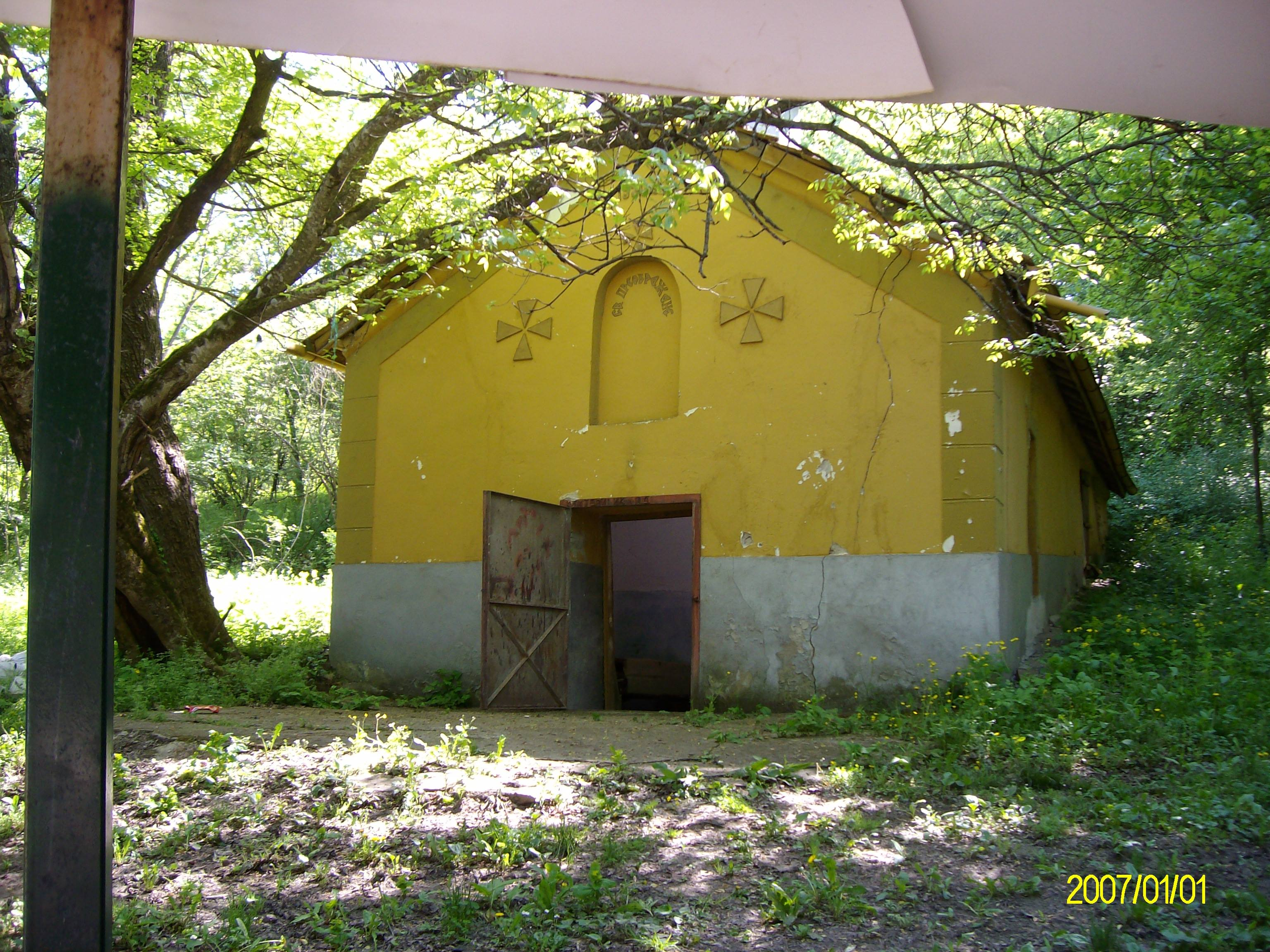 Transfiguration of Jesus Monastery, Skravena, Bulgaria